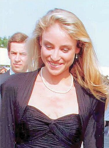 Actor Michael J Fox and Tracy Pollan at the 40th Emmy Awards